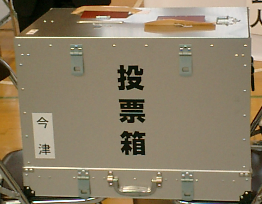 A ballot box for the election photography day, November, 2005 photography person MASA Photography place Osaka City Imazu elementary school gymnasium note It takes pictures in the vote meeting place of Osaka city Imazu elementary school in the voting day of Osaka mayoral election.